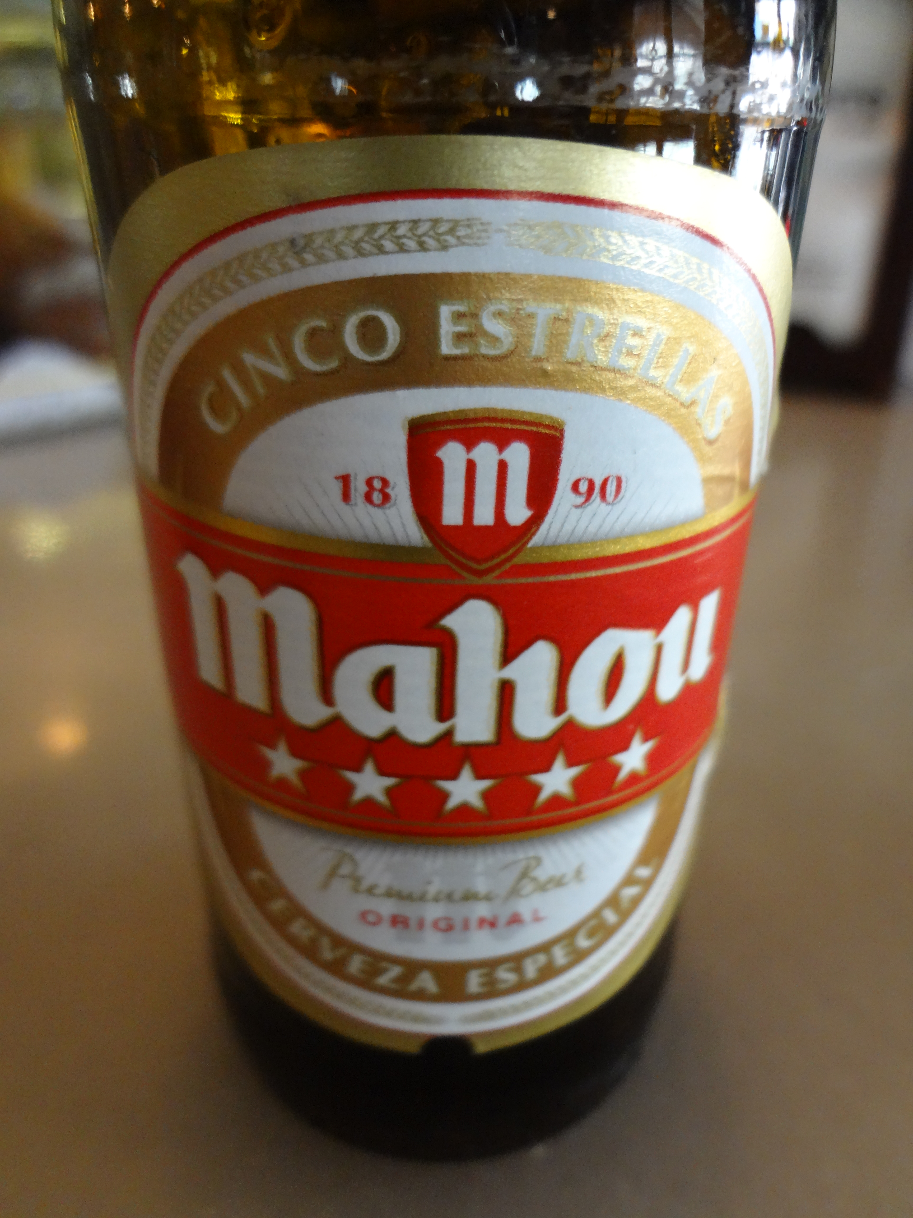 Tapas Bar & Restaurant Palo Santo Cafe Aranda de Duero Mahou Cerveza